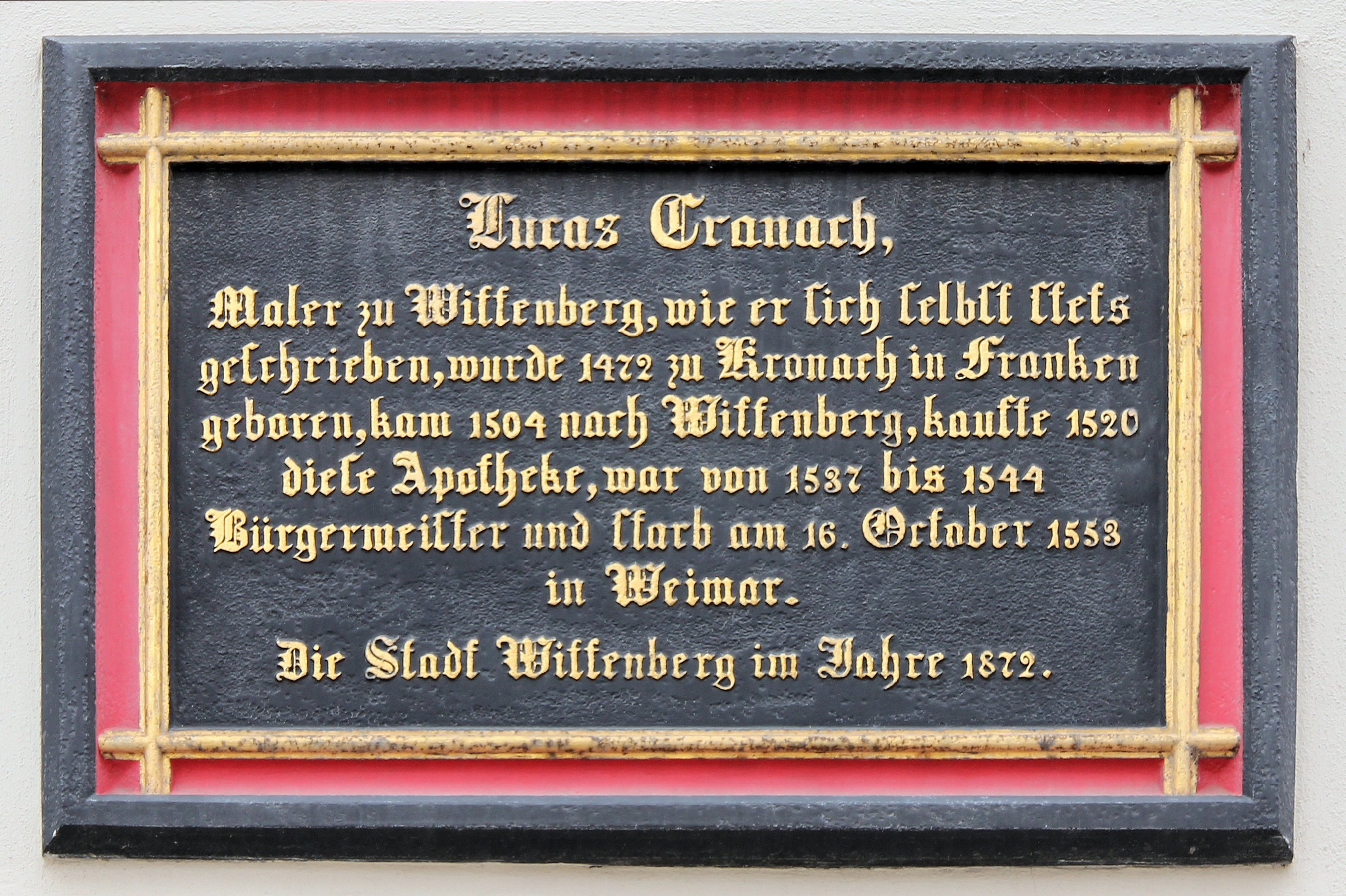 Memorial plaque, Lucas Cranach der Ältere, Schloßstraße 1, Lutherstadt Wittenberg, Germany